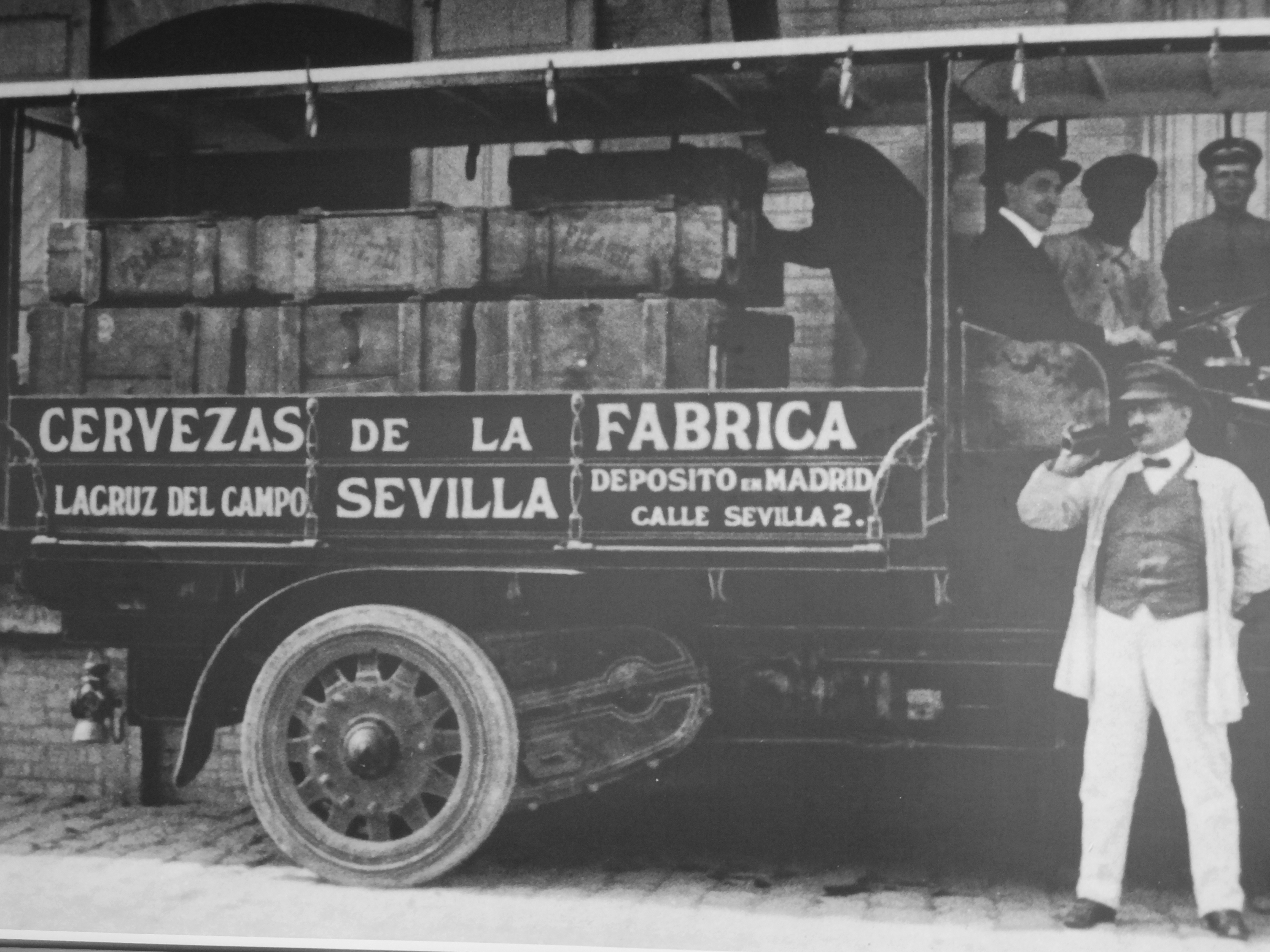 A Cruzcampo vintage photograph that was covering a wall in a cafe in the Valencia region of España Photography by David Adam Kess